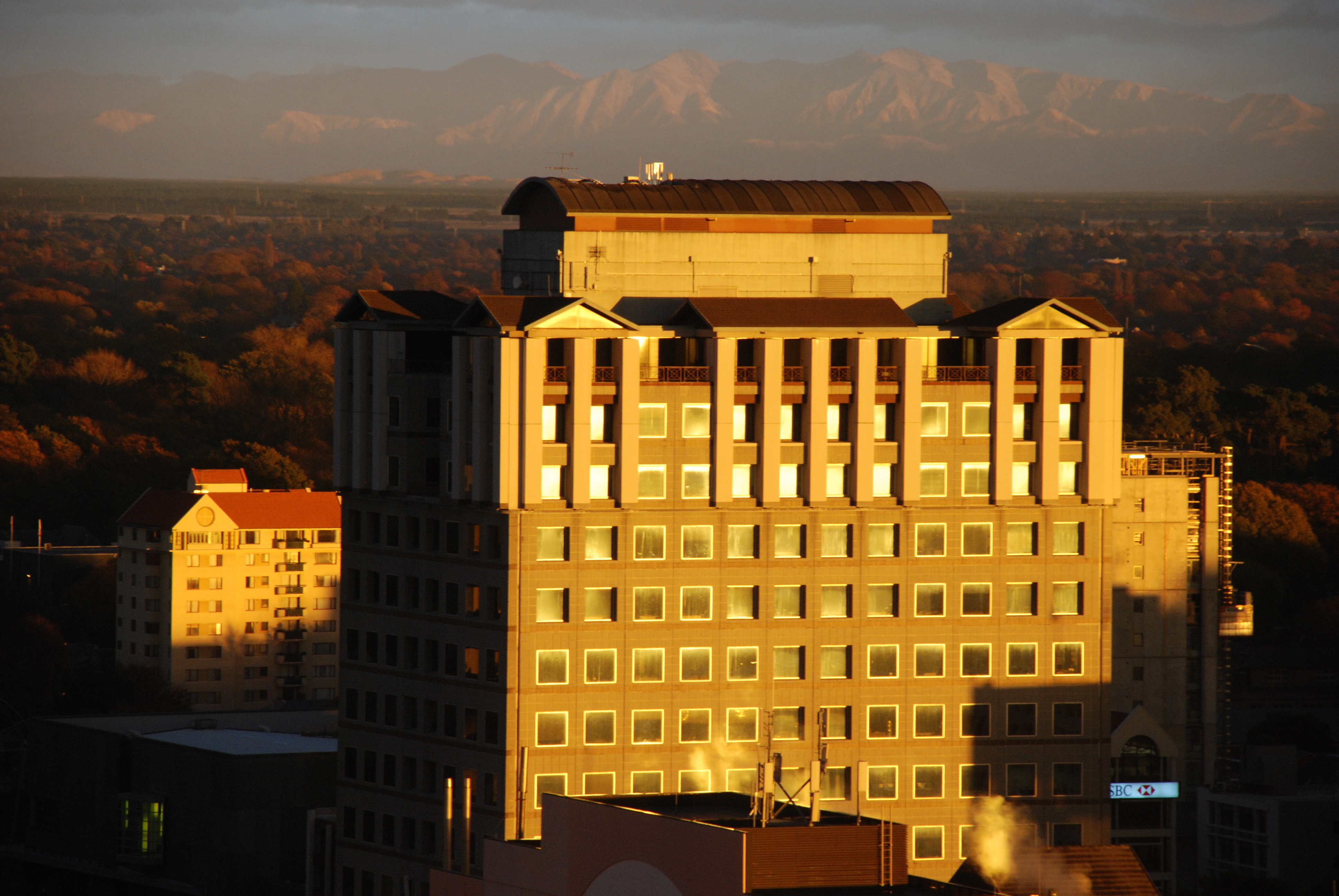 The large building is the Clarendon Tower on the corner of Worcester Street and Oxford Terrace.